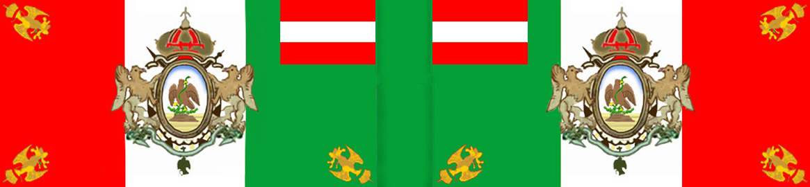 Flag of the Austrian Legion